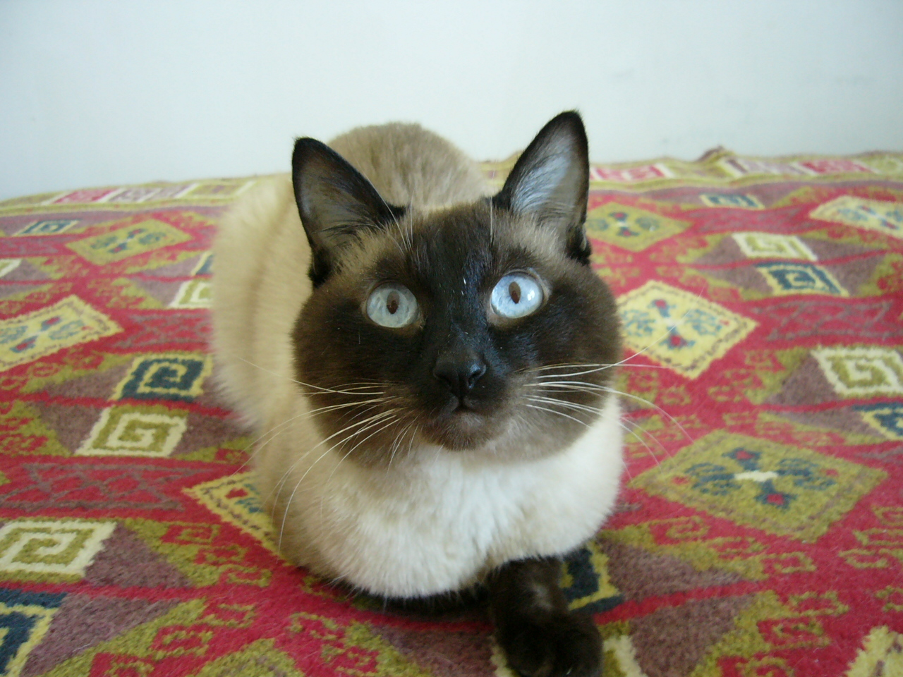 Tishka is a boy, he was born on January 24, 2001